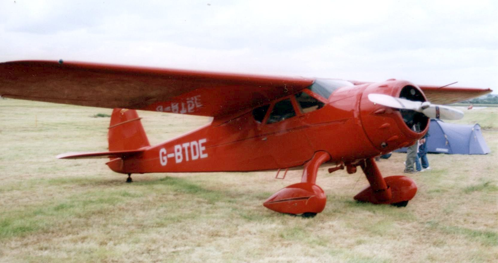 Cessna C165 at Keevil, Wiltshire, England